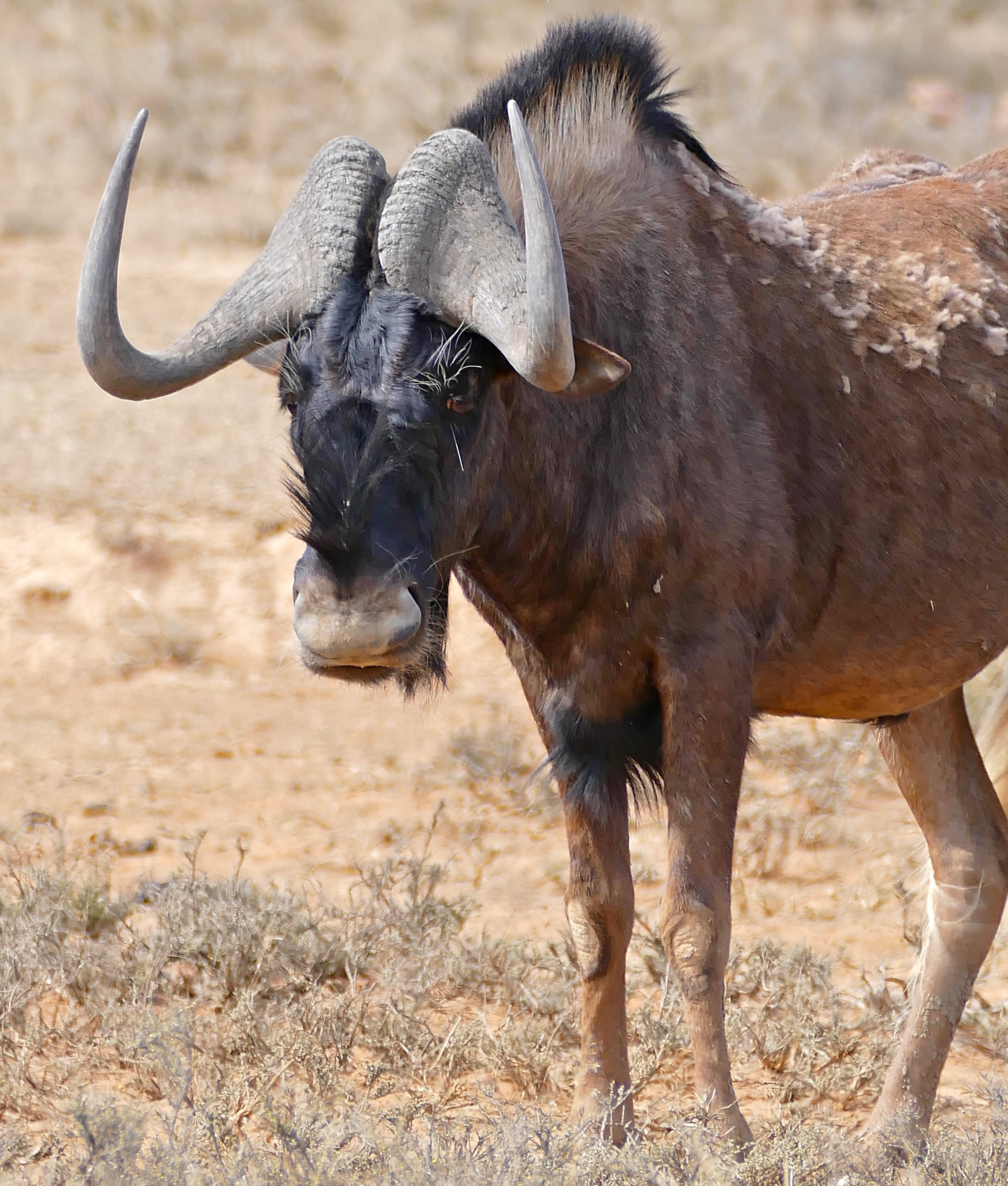 Link Road, Mountain Zebra NP, Eastern Cape, SOUTH AFRICA